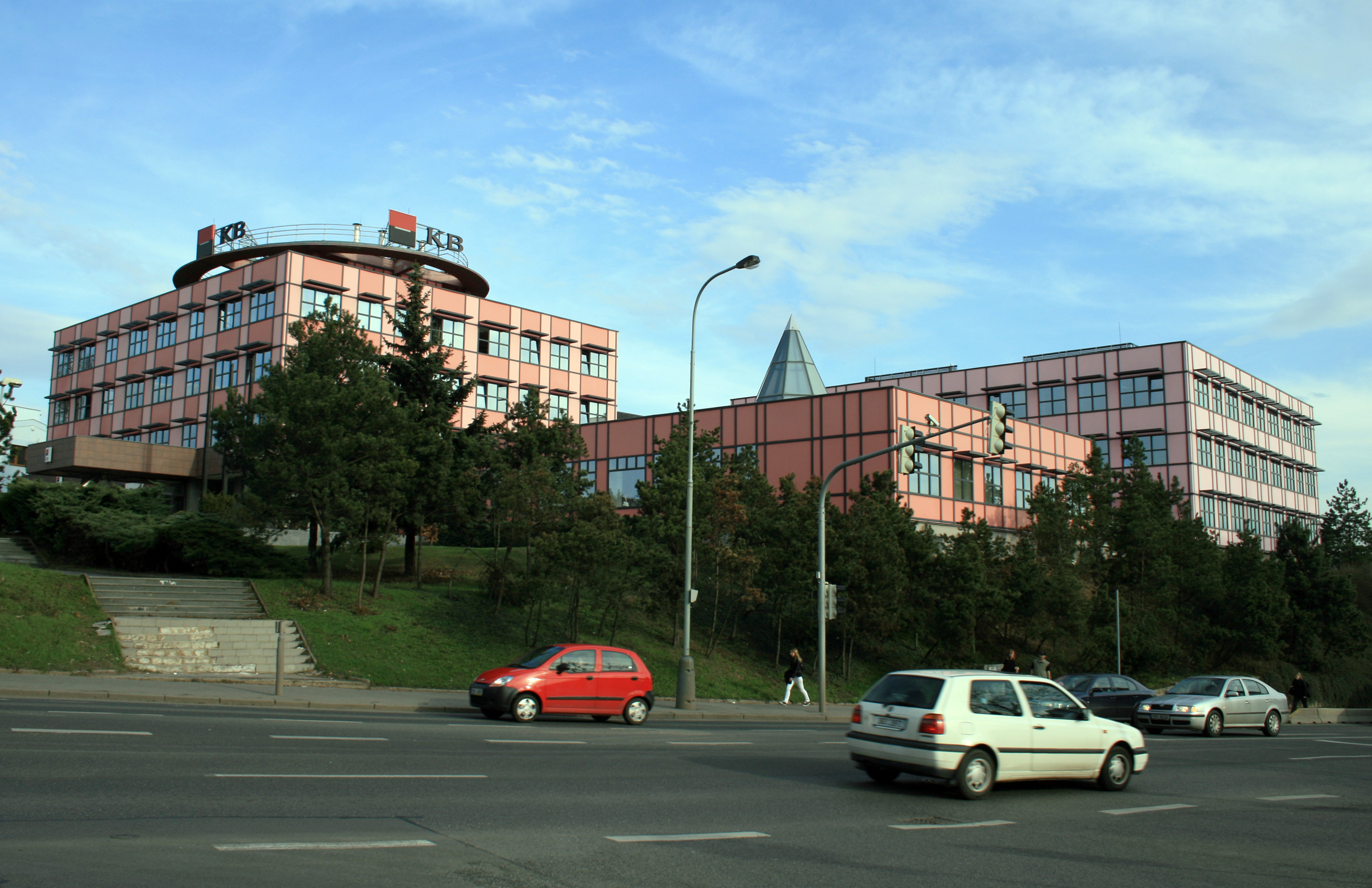 Building of Commercial Bank in Prague, Czech Republic